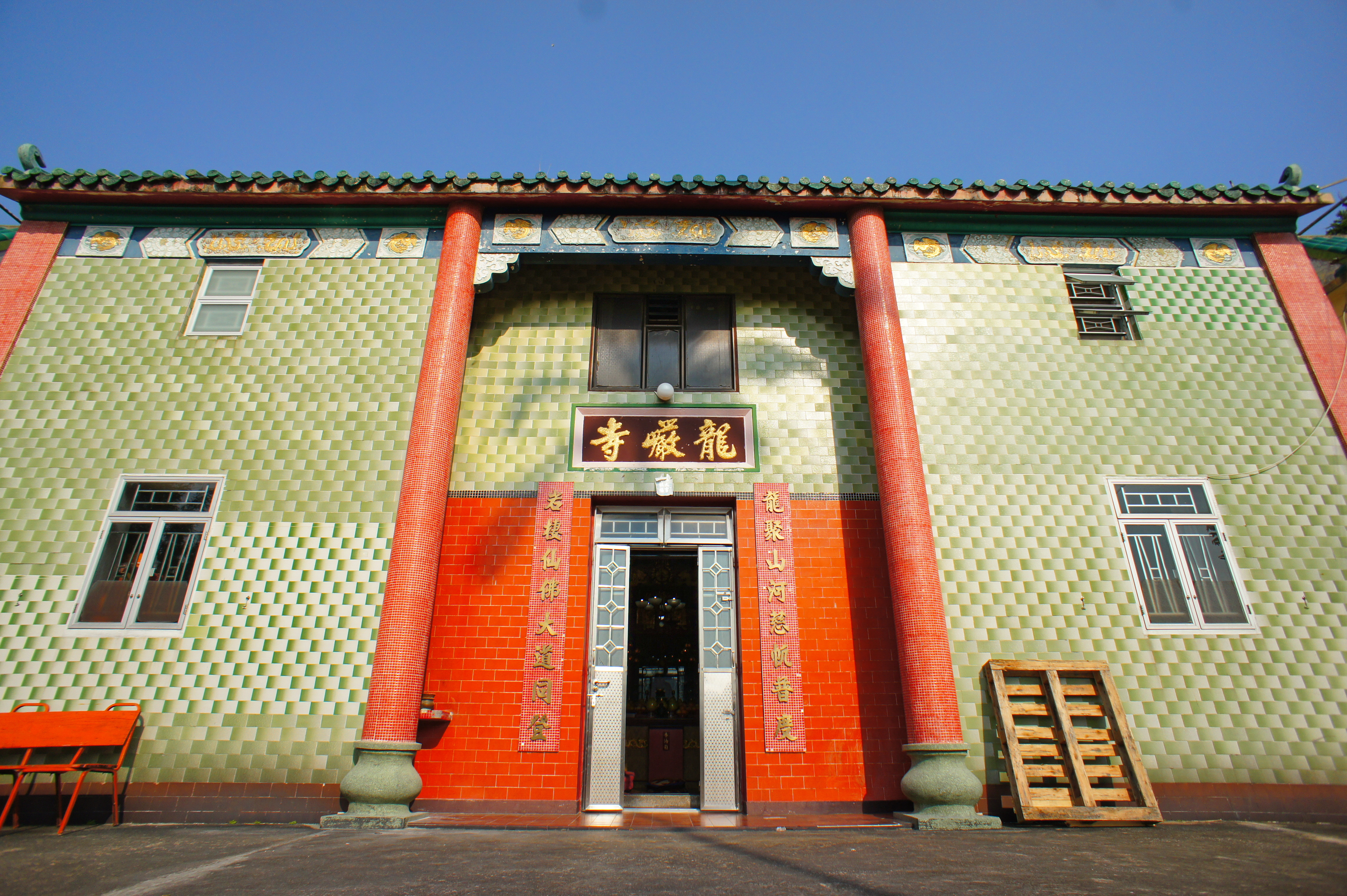 Lung Ngam Temple, Tai O, Lantau Island, Hong Kong.